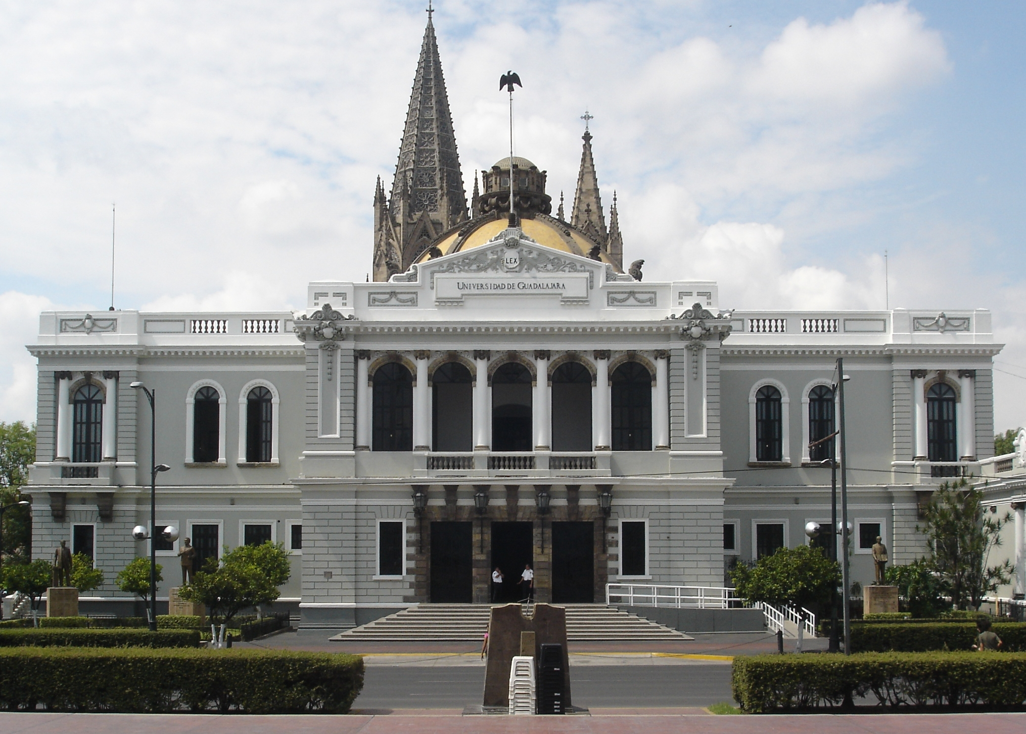 The University of Guadalajara in Guadalajara, Jalisco, Mexico.